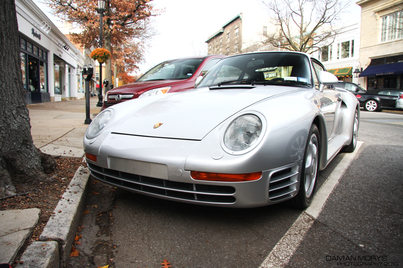 Unbelievable, Ralph Lauren's Porsche 959 parked on Greenwich Ave.